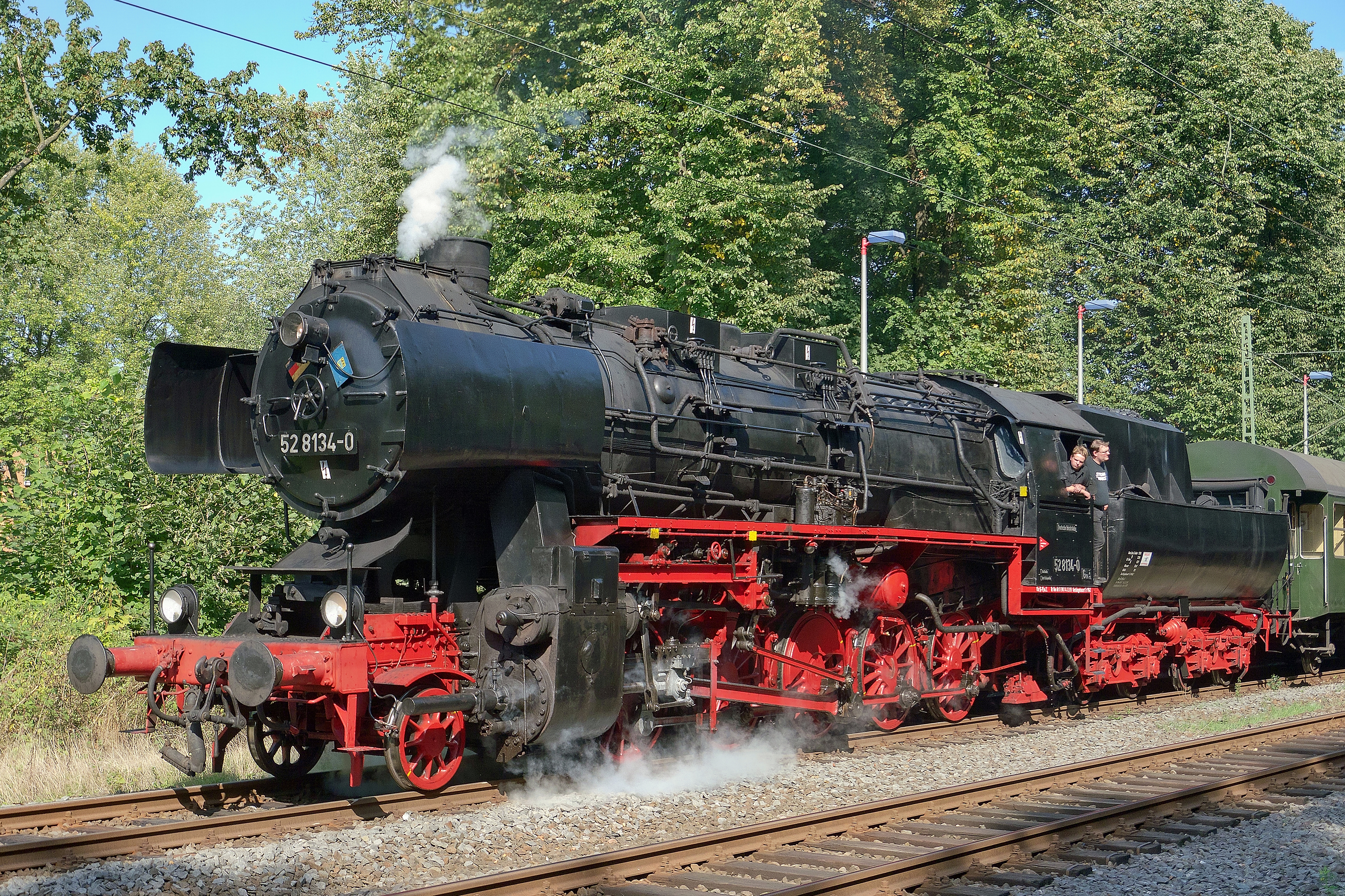 This steam engine has been built in 1943, reconstructed to DR Class 52.80 in 1965, out of regular use since 1983 and out of maintainance since 1994: 1997 bought by a railway heritage club and then restored, see presentation on a German railway heritage page.